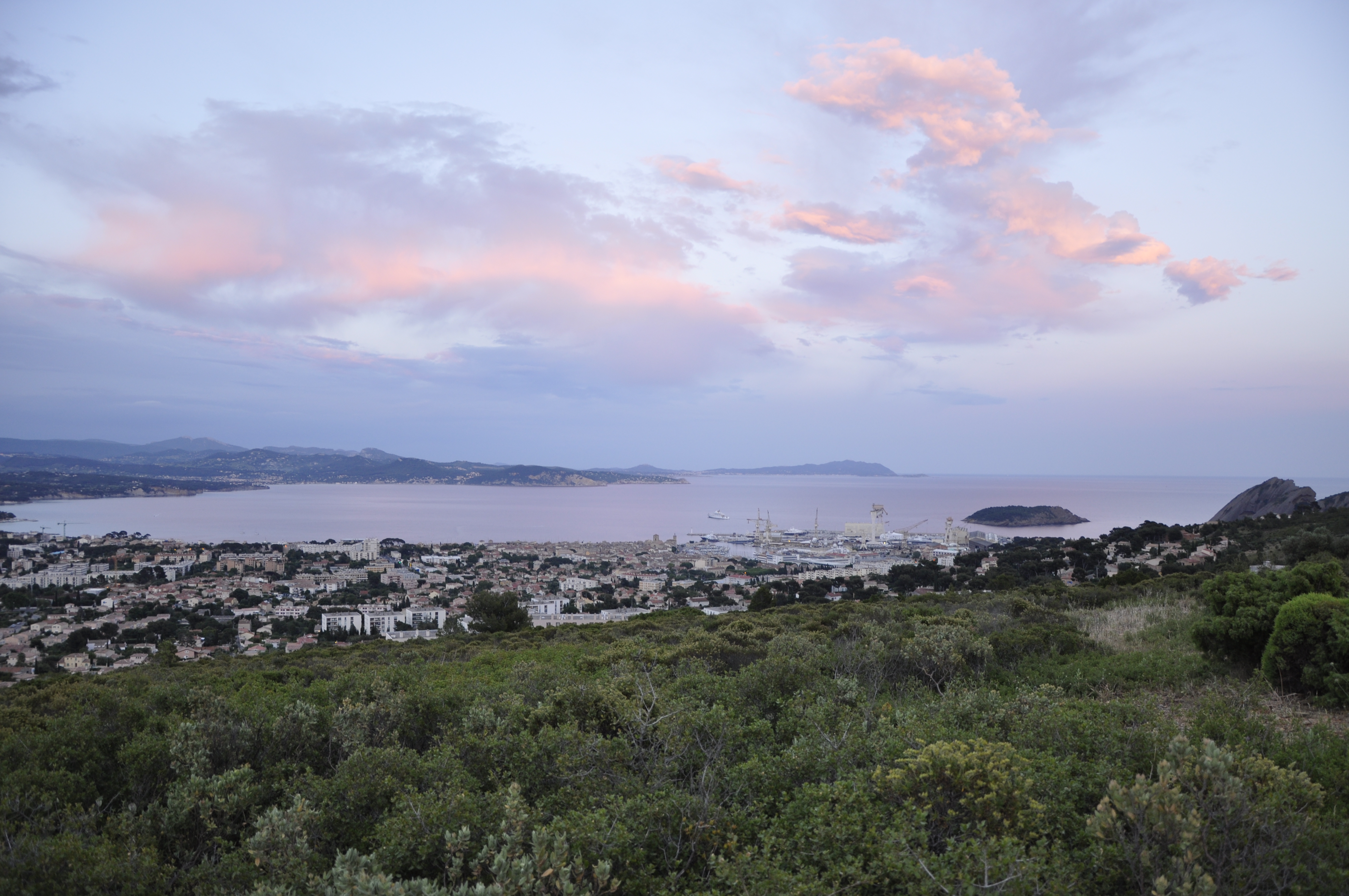 A view of La Ciotat from the "route des crêtes"